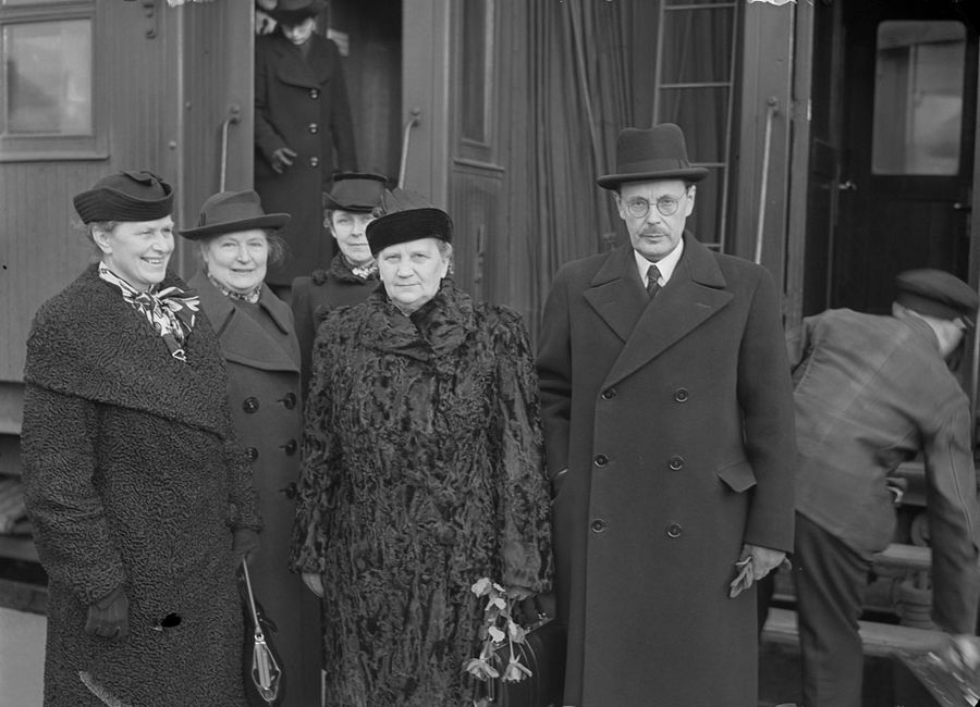 The leader of Lotta Svärd, Fanni Luukkonen, on the Helsinki railway station en route to Denmark October 27, 1938.